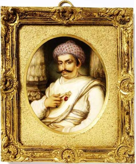 Portrait of Hyder Beg Khan, minister to Nawab of Awadh, Asaf-ud-Daula, 1786. Lucknow, India.